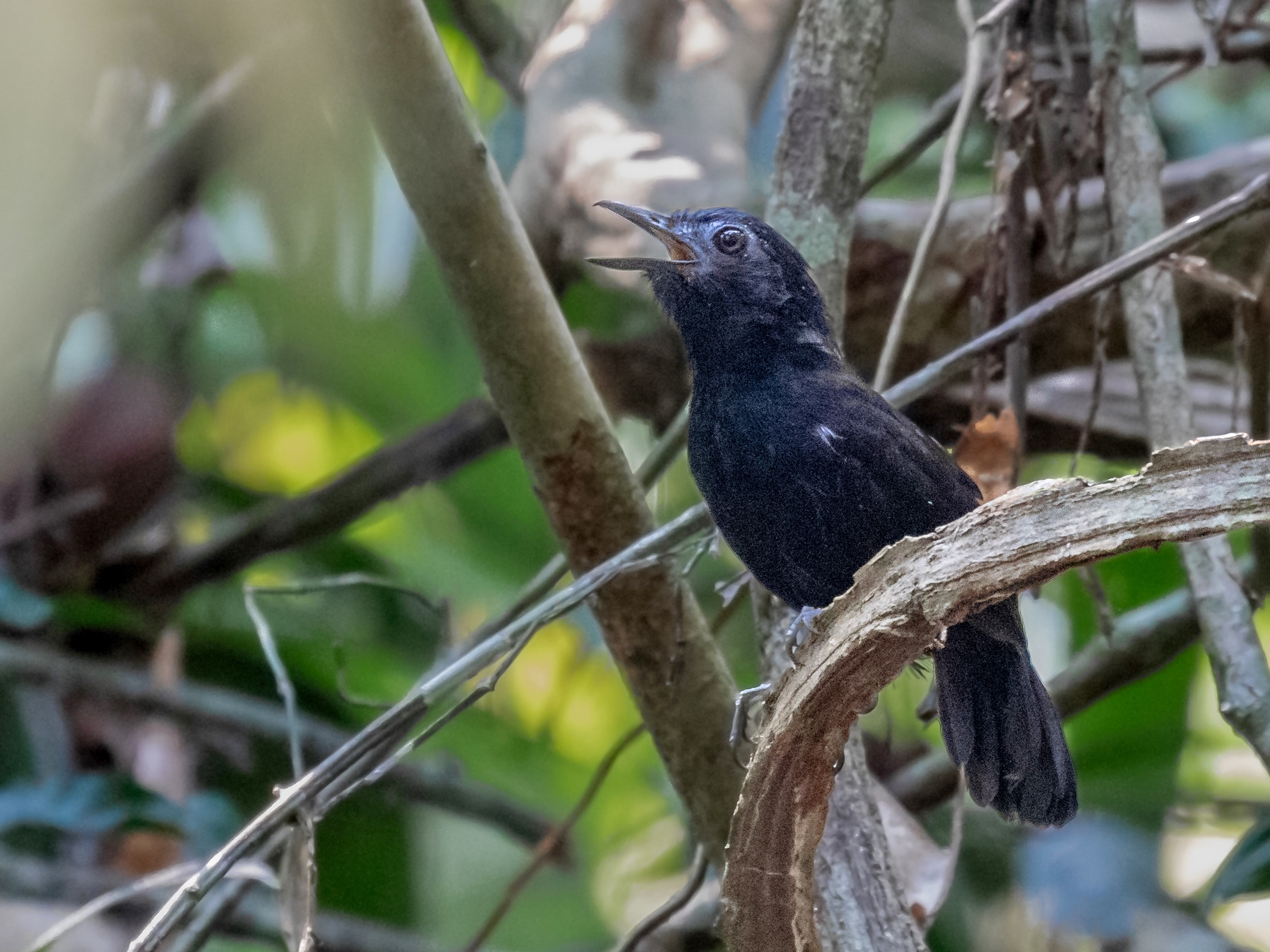 White-shouldered Antbird (male); River Moa, Mancio Lima, Acre, Brazil